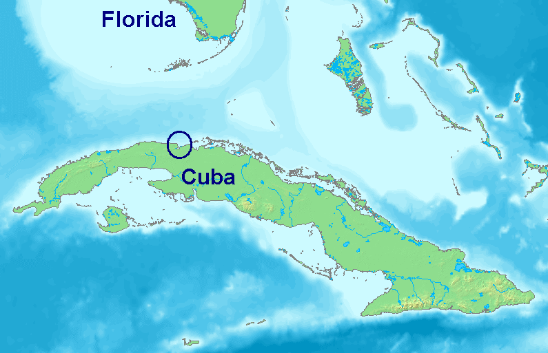 Matanzas Bay Cuba